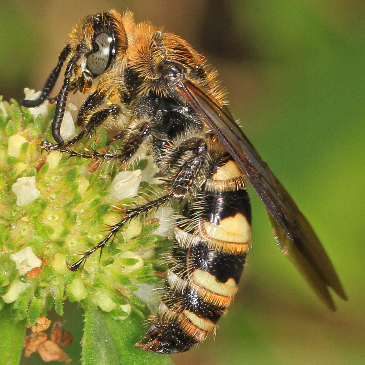 Scoliid Wasp - Dielis plumipes, Okaloacoochee Slough State Forest, Felda, Florida